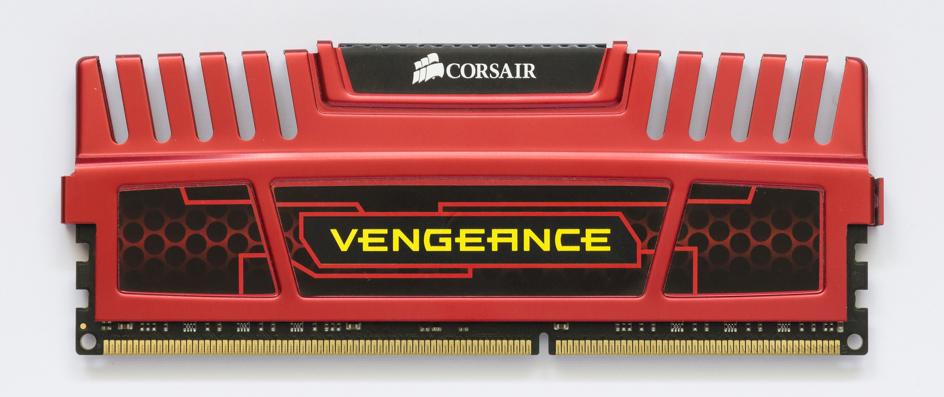 DDR3 memory Corsair Vengeance 4GB, 1600MHz